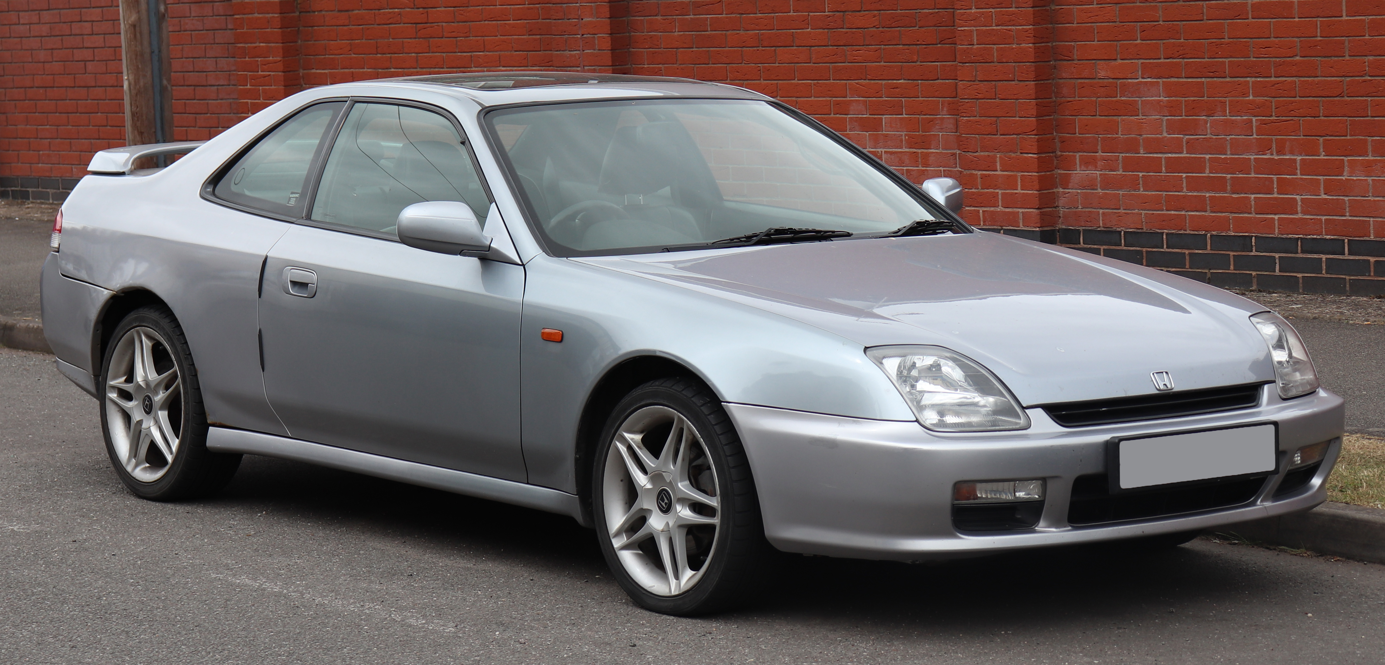 1998 Honda Prelude VTi Automatic 2.2 Front Taken in Leamington Spa